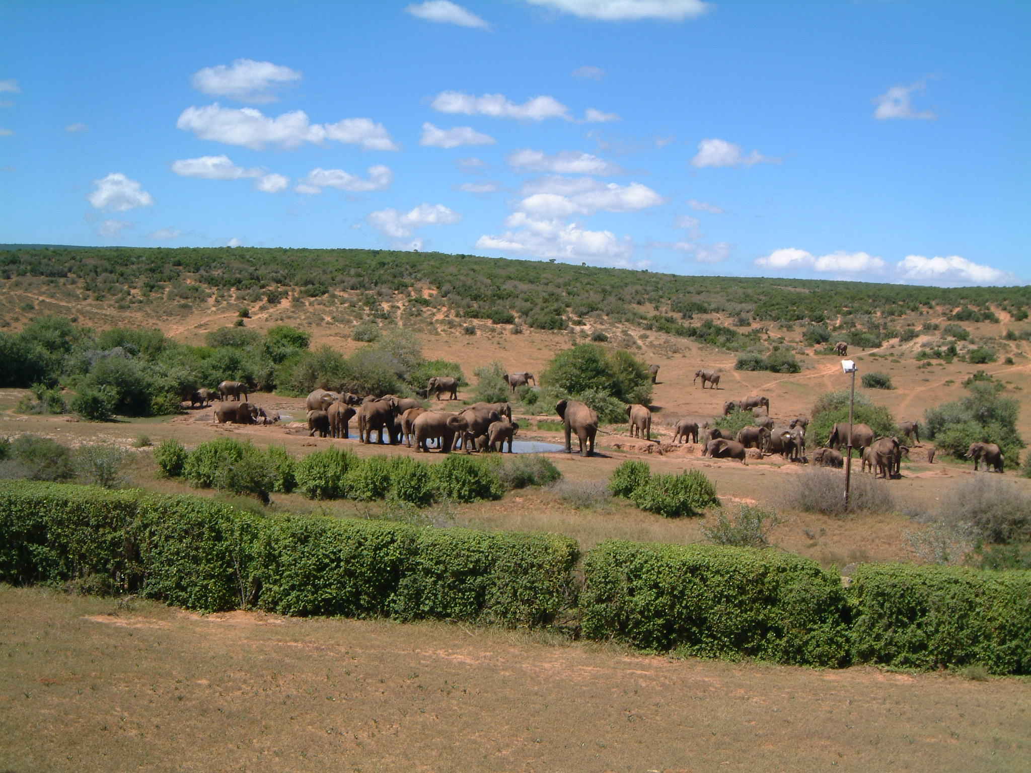 Elephants congregating at a watering hole in Addo Elephant Park, South Africa